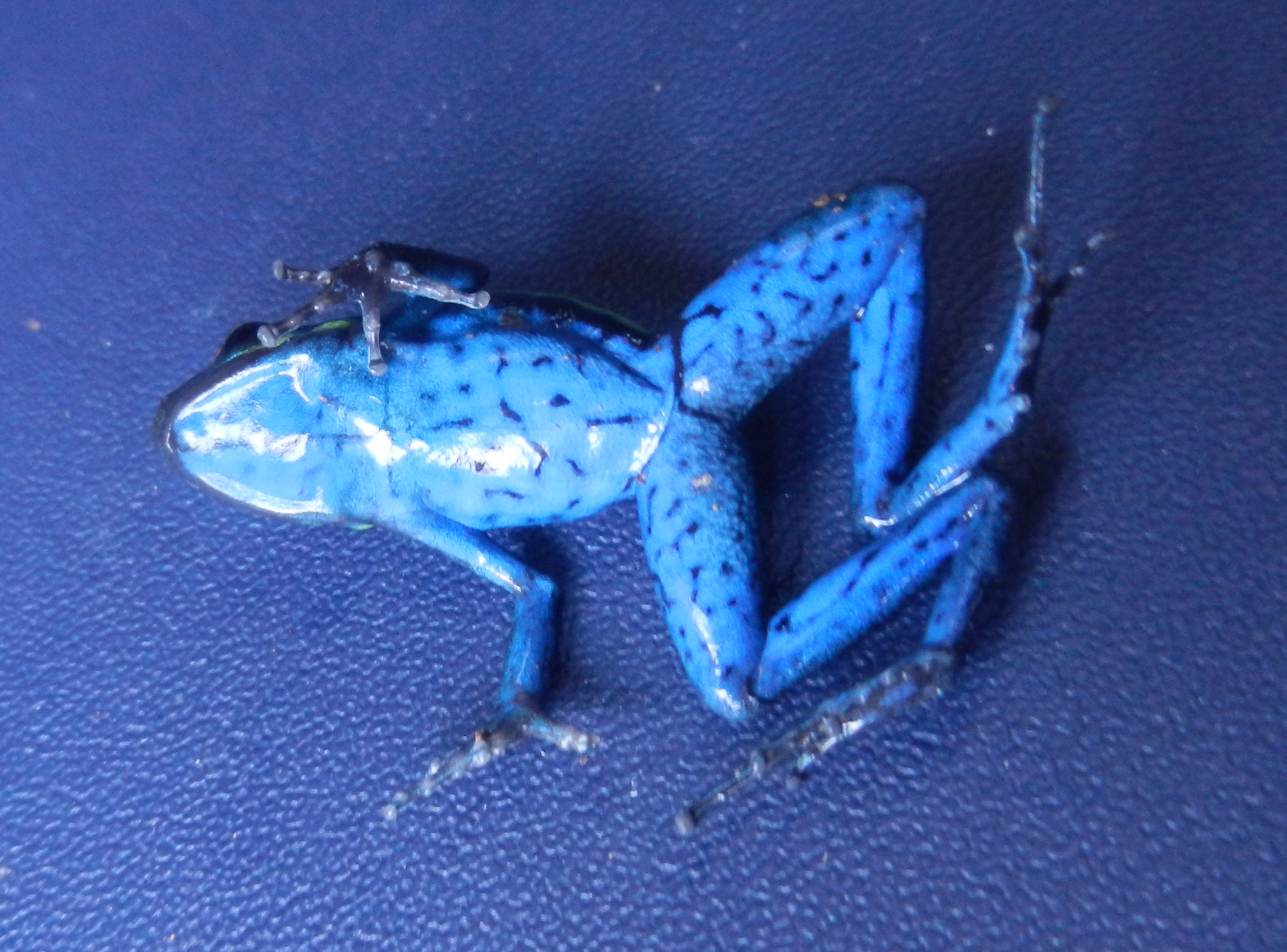 Ameerega macero at the Manu Learning Centre, Madre de Dios region, Peru.